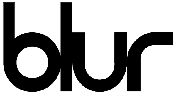 Blur Logo